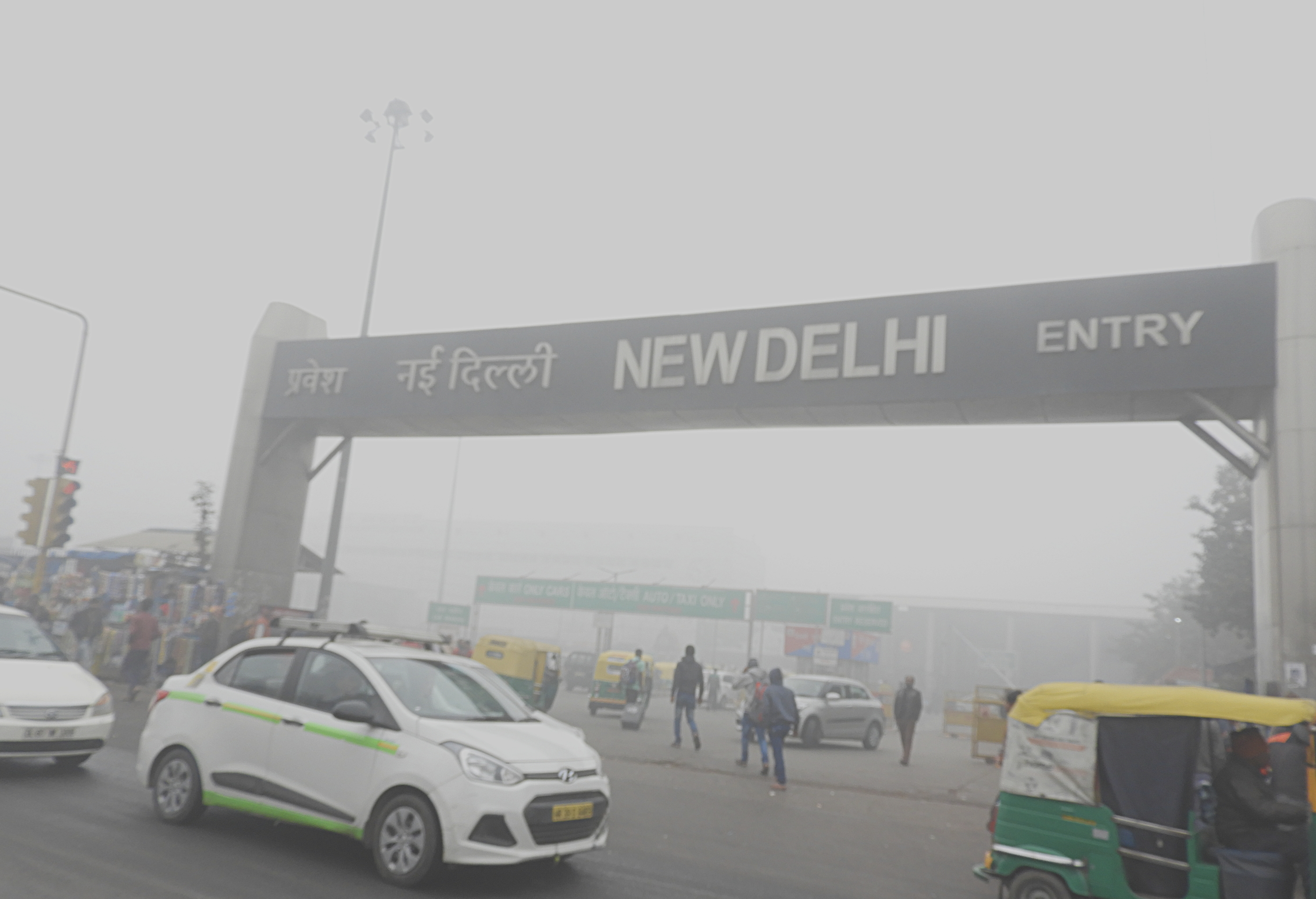 Low visibility due to Smog at New Delhi railway station 31st Dec 2017 9:20AM